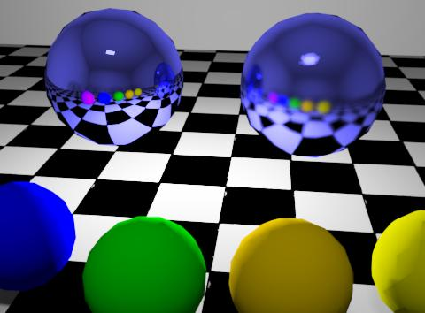 Sample of blurry reflection. Model created with Google SketchUp. Rendered with IRender nXt.